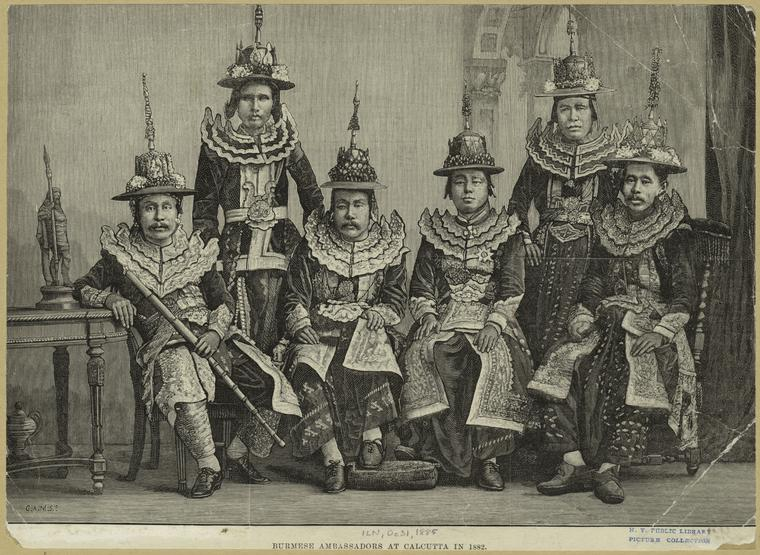 Image Title Burmese ambassadors at Calcutta in 1882. Additional Name(s) G. A. M. -- Engraver Published Date 1885 Depicted Date 1882 Specific Material Type Prints Item Physical Description 1 print : b&w ; 17 x 23 cm. (6 3/4 x 9 in.) Notes Printed on image: "G.A.M.A. sc." Written on border: "Oct. 31, 1885." Original Source From The Illustrated London news. ([London] [ The Illustrated London News & Sketch Ltd.] 1842-) . Source Mid-Manhattan Picture Collection / Costume -- regional -- Burmese Source Description 1 folder (20 pictures) Location Mid-Manhattan Library / Picture Collection Catalog Call Number PC COSTU-Reg-Bur Digital ID 826776 Record ID 710426 Digital Item Published 10-27-2005; updated 3-25-2011